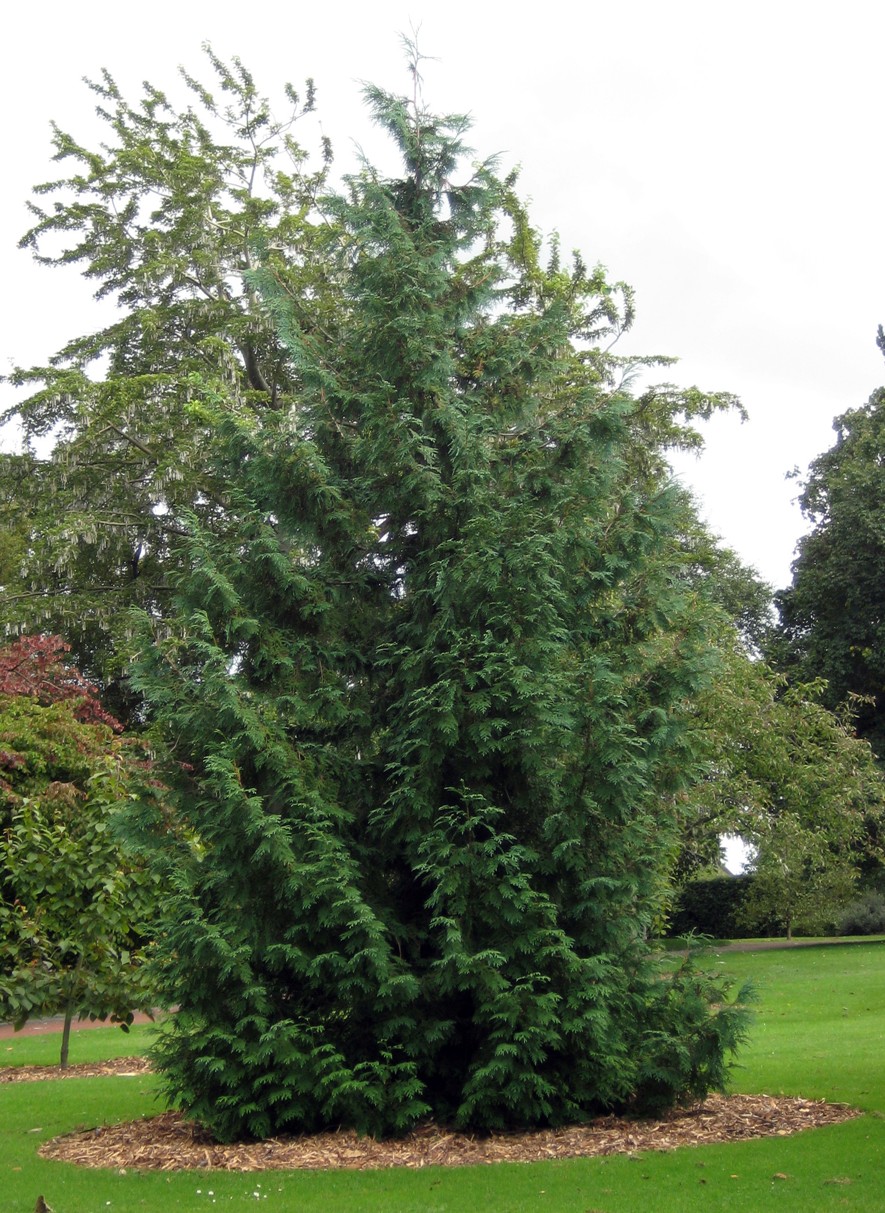 Japanese Thuja